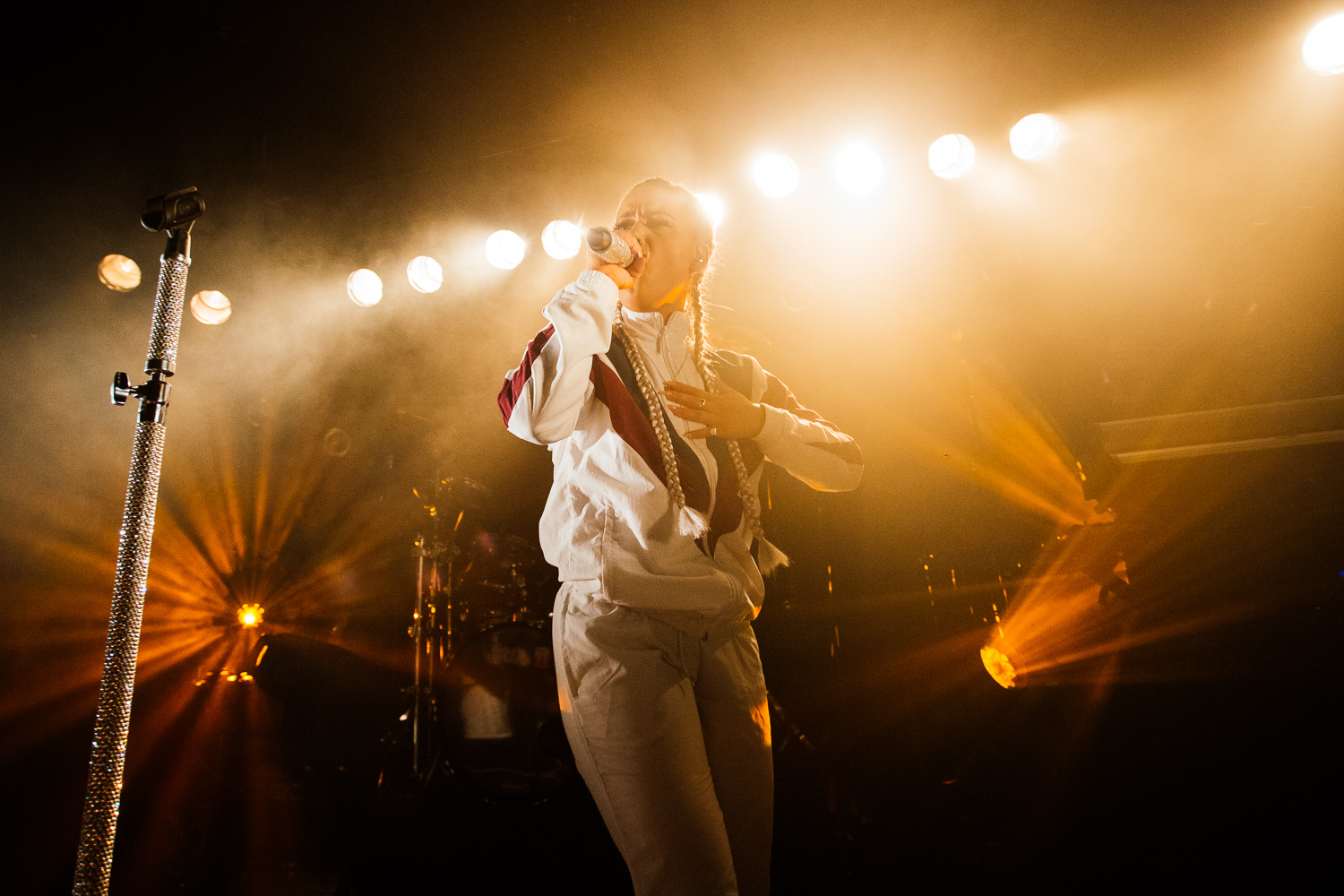 Julie Bergan performing live at by:Larm 2017